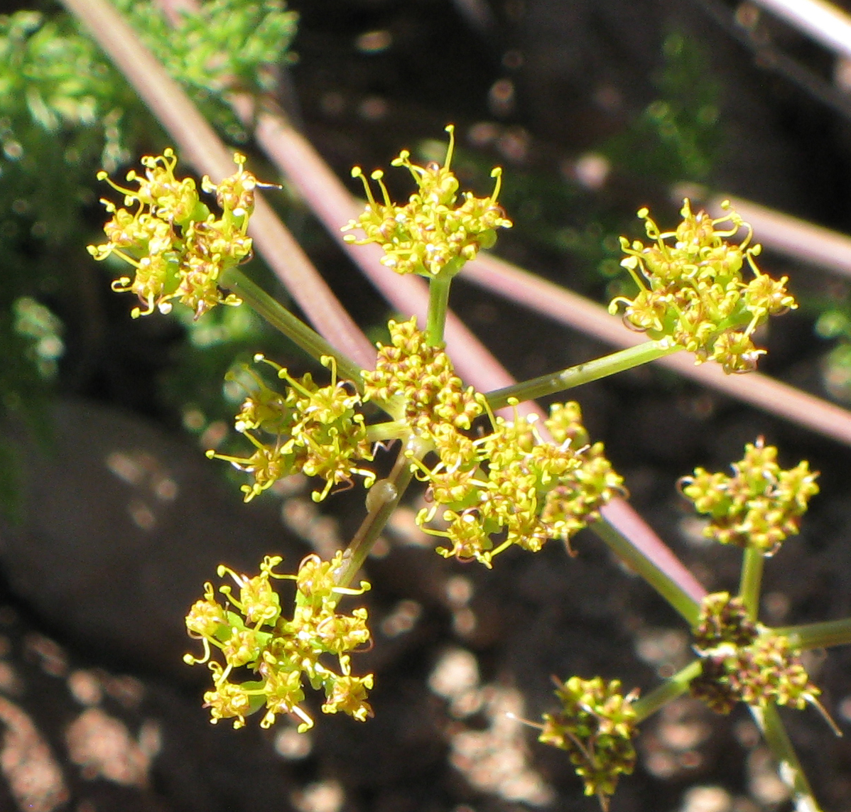 Rocky pteryxia (Cymopterus terebinthinus), closeup of the double-umbel of yellow flowers with protruding stamens. At 10,500 ft (3,200 m) in red pumice near the west end of Mammoth Crest, John Muir Wilderness, Sierra Nevada USA.